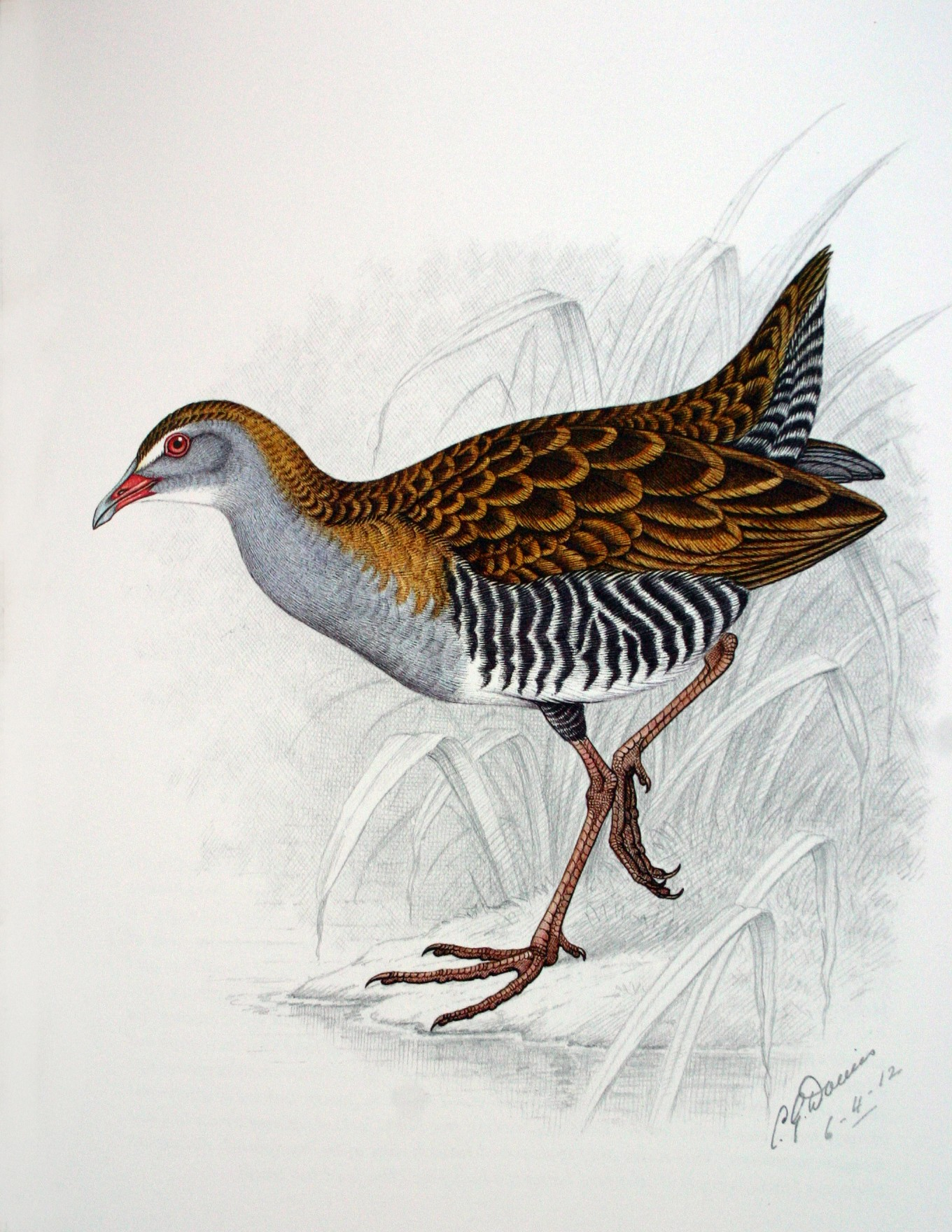 African Crake (Crex egregia)